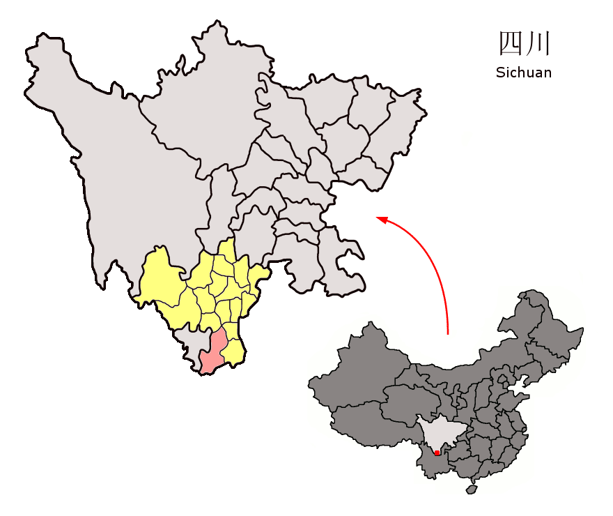 Location of Huili County (pink) and Liangshan Prefecture (yellow) within Sichuan province of China Map drawn in september 2007 using various sources, mainly : Sichuan province administrative regions GIS data: 1:1M, County level, 1990 Sichuan Counties map from